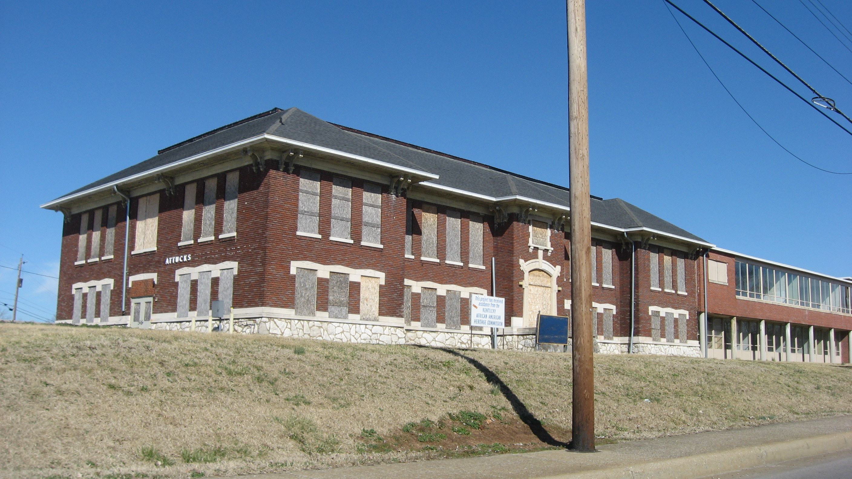 Front and western side of Attucks High School, located at 712 E. First Street in Hopkinsville, Kentucky, United States. Built in 1916, it is listed on the National Register of Historic Places.